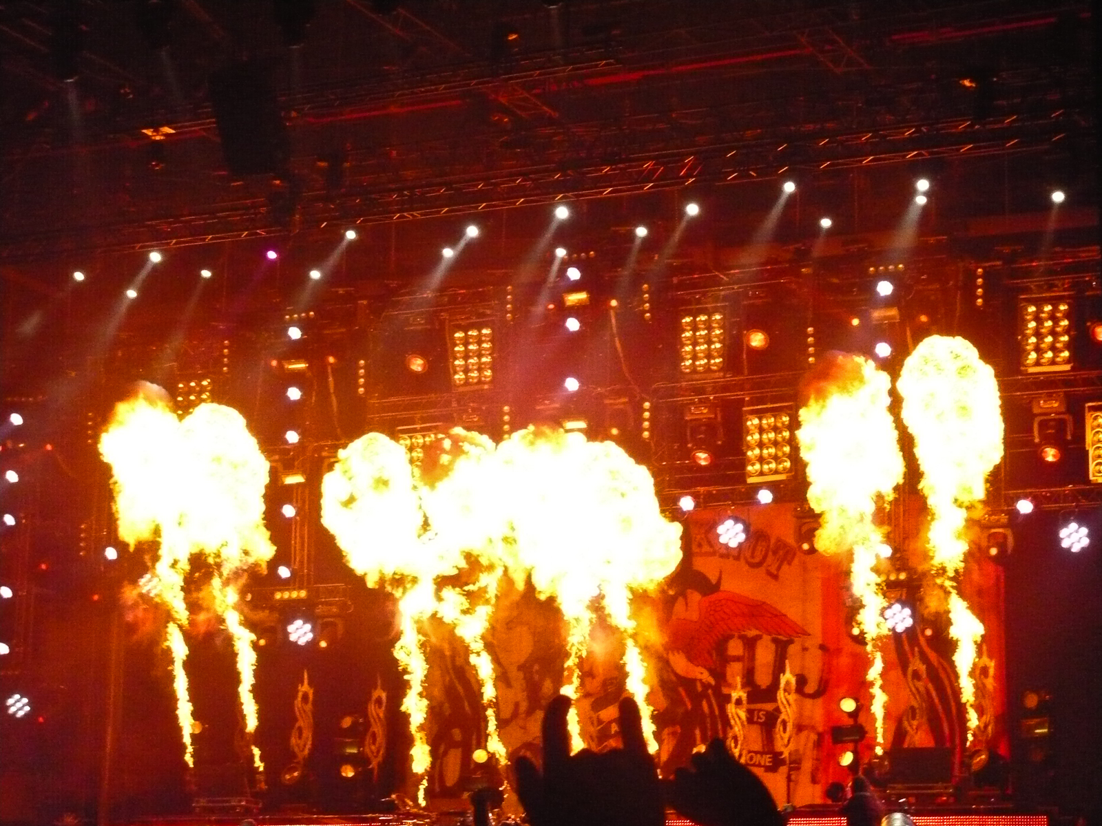 Slipknot at Rock am Ring 2009.